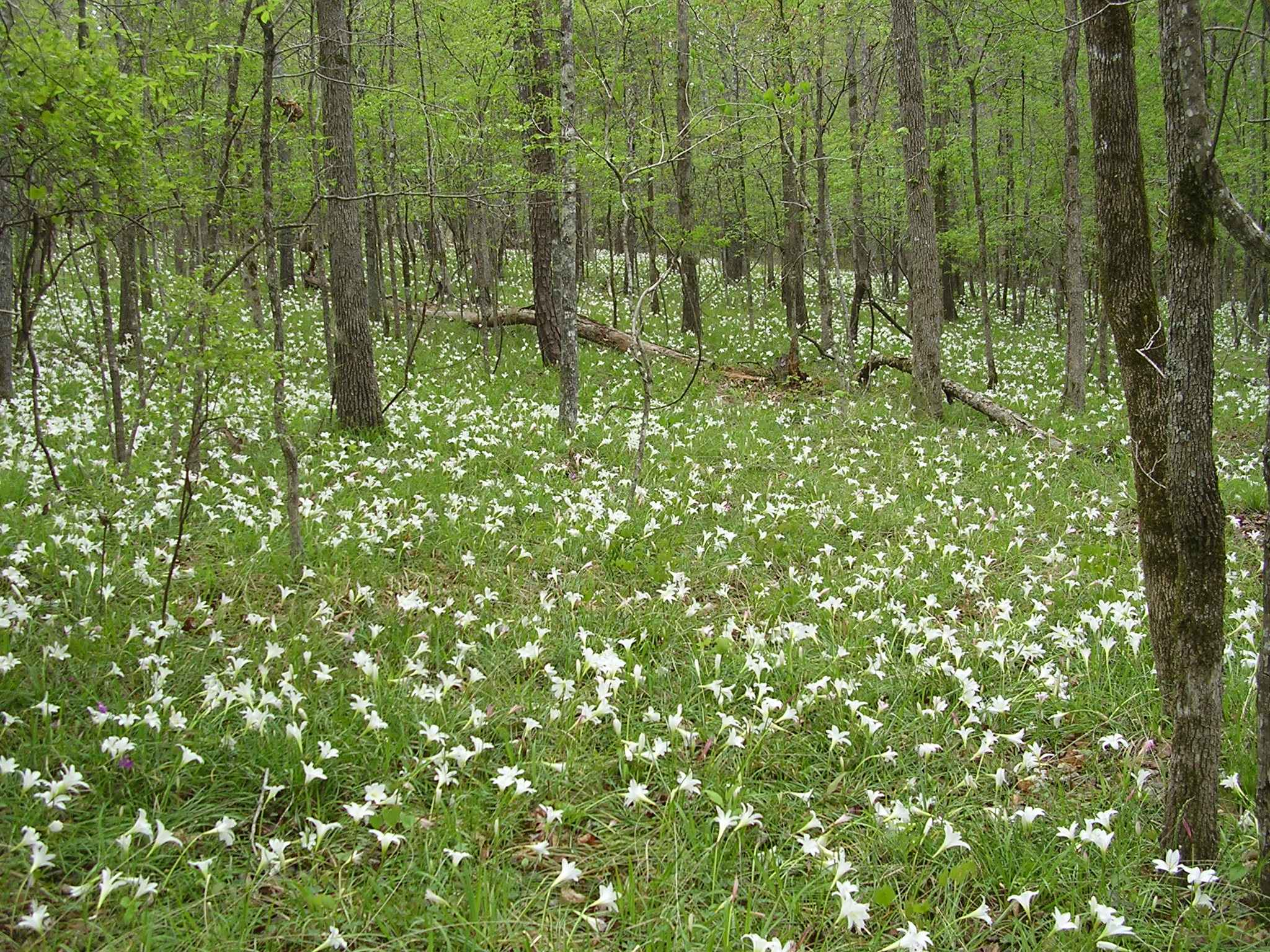 Image title: Spring wildflowers atamasco lilies create an easter time carpe Image from Public domain images website